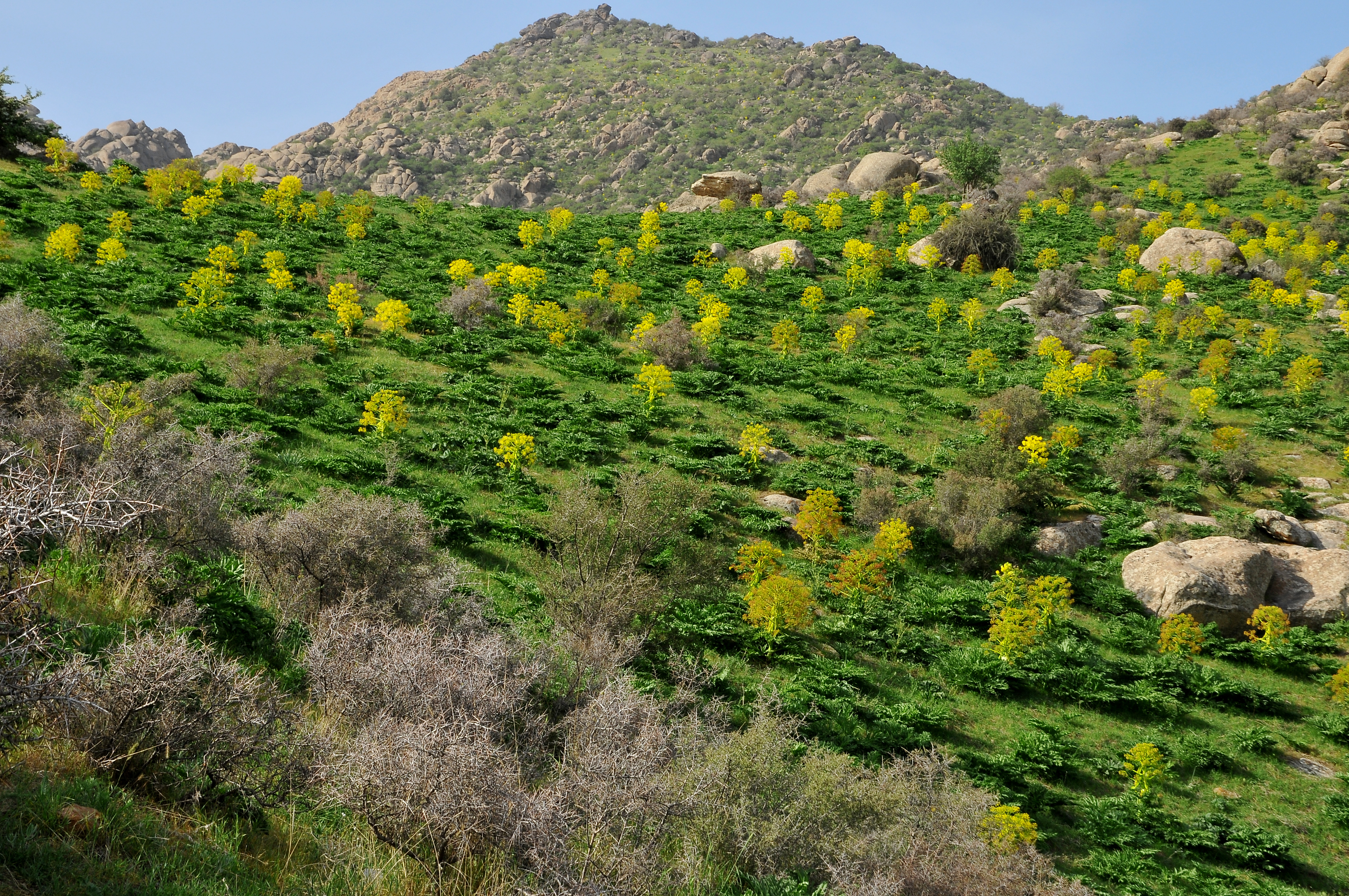 Flowering wild rhubarb; Zarafshan Range foothill, in route to Takhta-Karacha Pass. Qashqadaryo Region, Uzbekistan